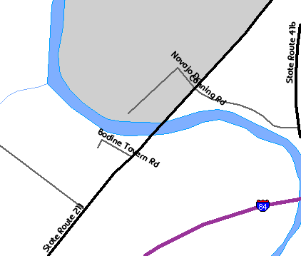 Map showing Bodine's Bridge in Town of Montgomery, New York, USA and surrounding area